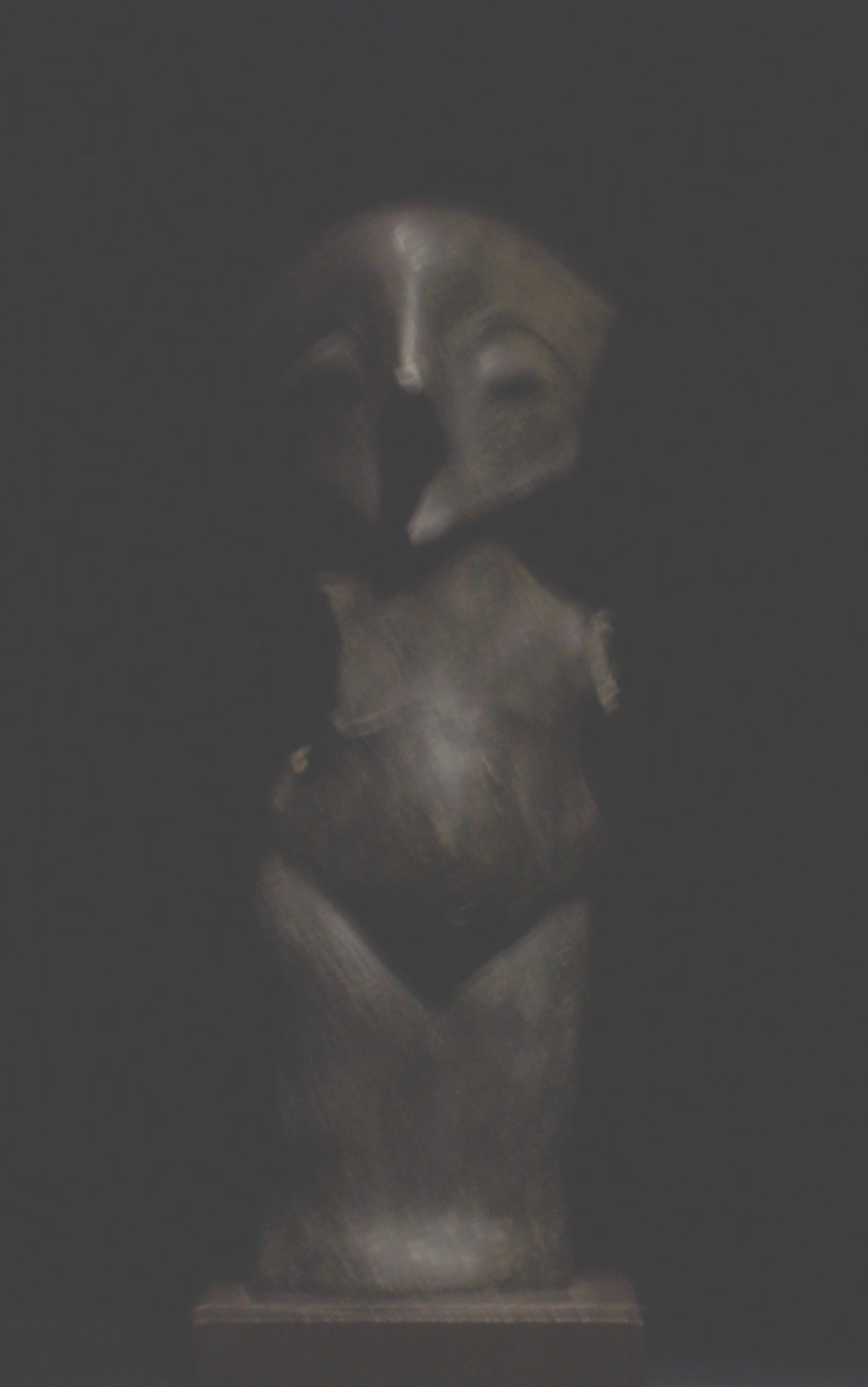 Vidovdanka, the peak of Vinča art.